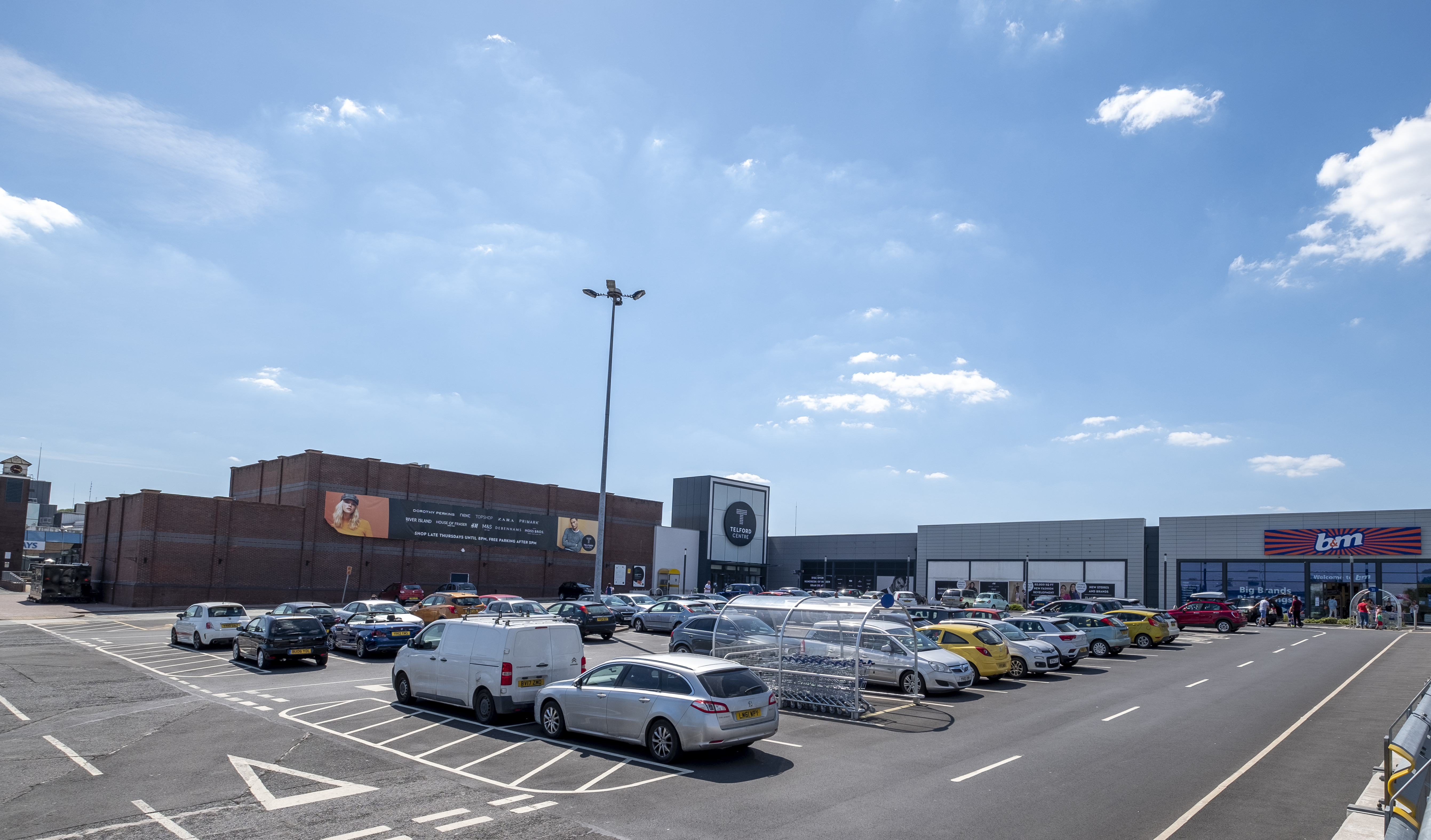 Telford